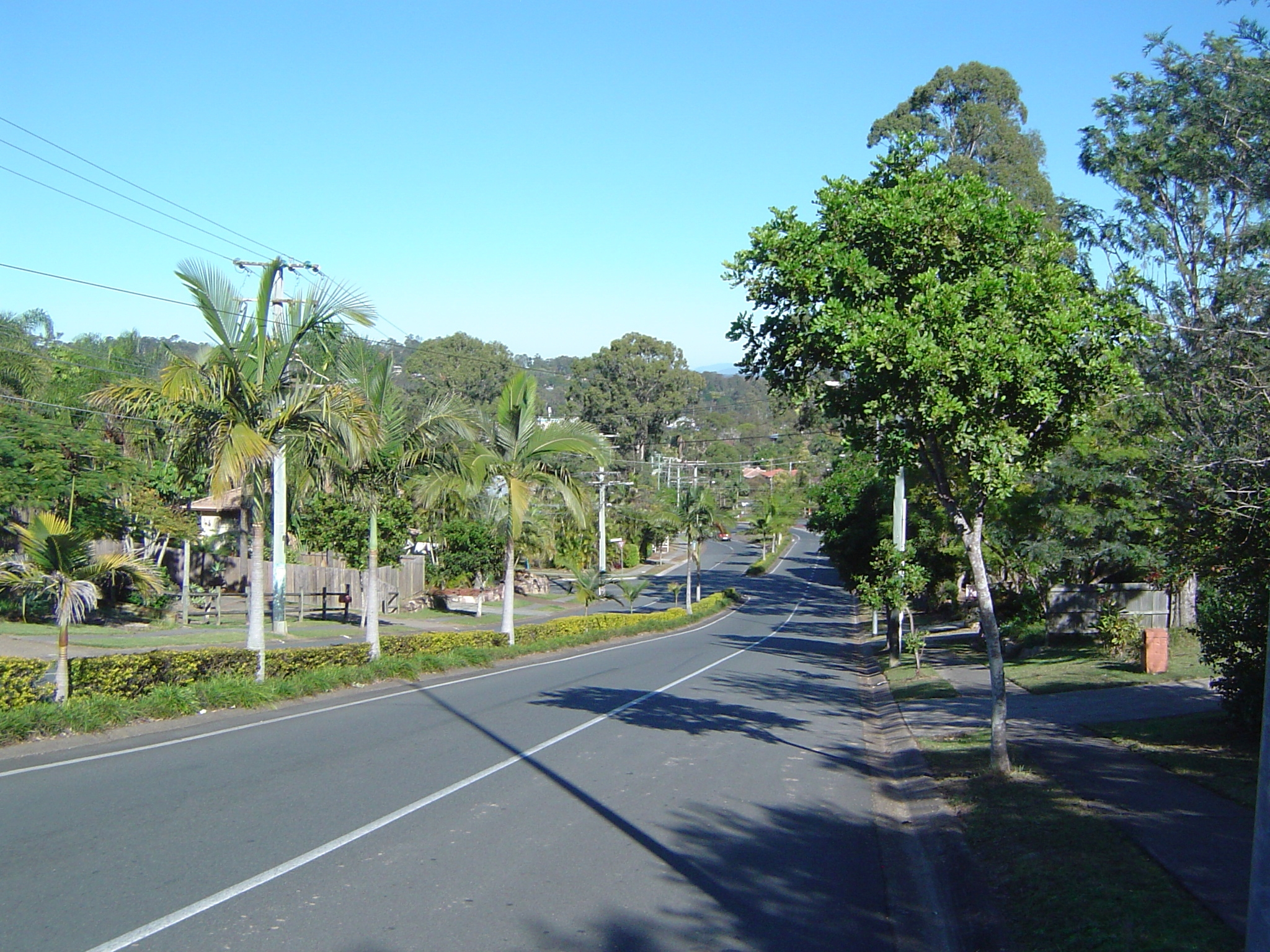 Photo of Plantain Road at Shailer Park, Logan City, Queensland, Australia.